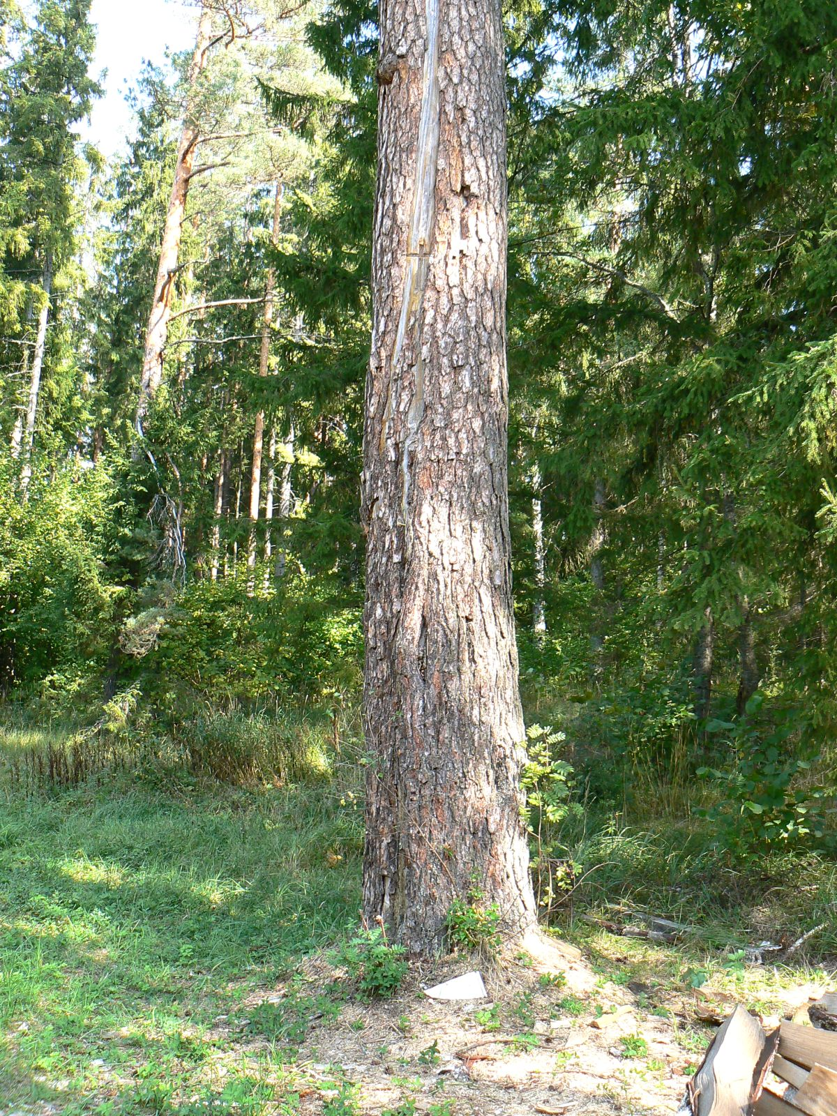 The Kambia ristimänd, in Estonia